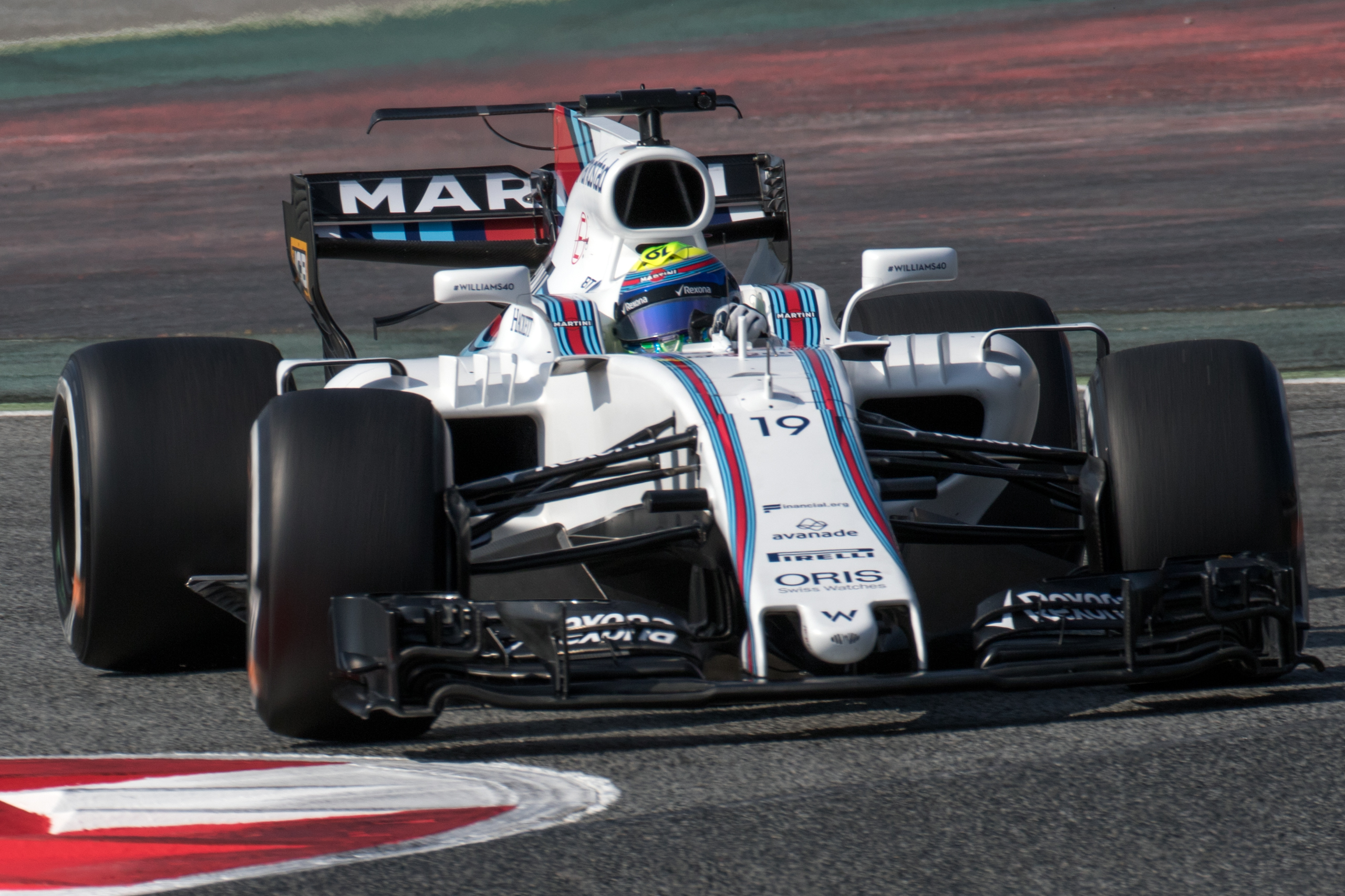 Formula One 2017 Catalonia test (27 February-2 March): Felipe Massa (Williams)